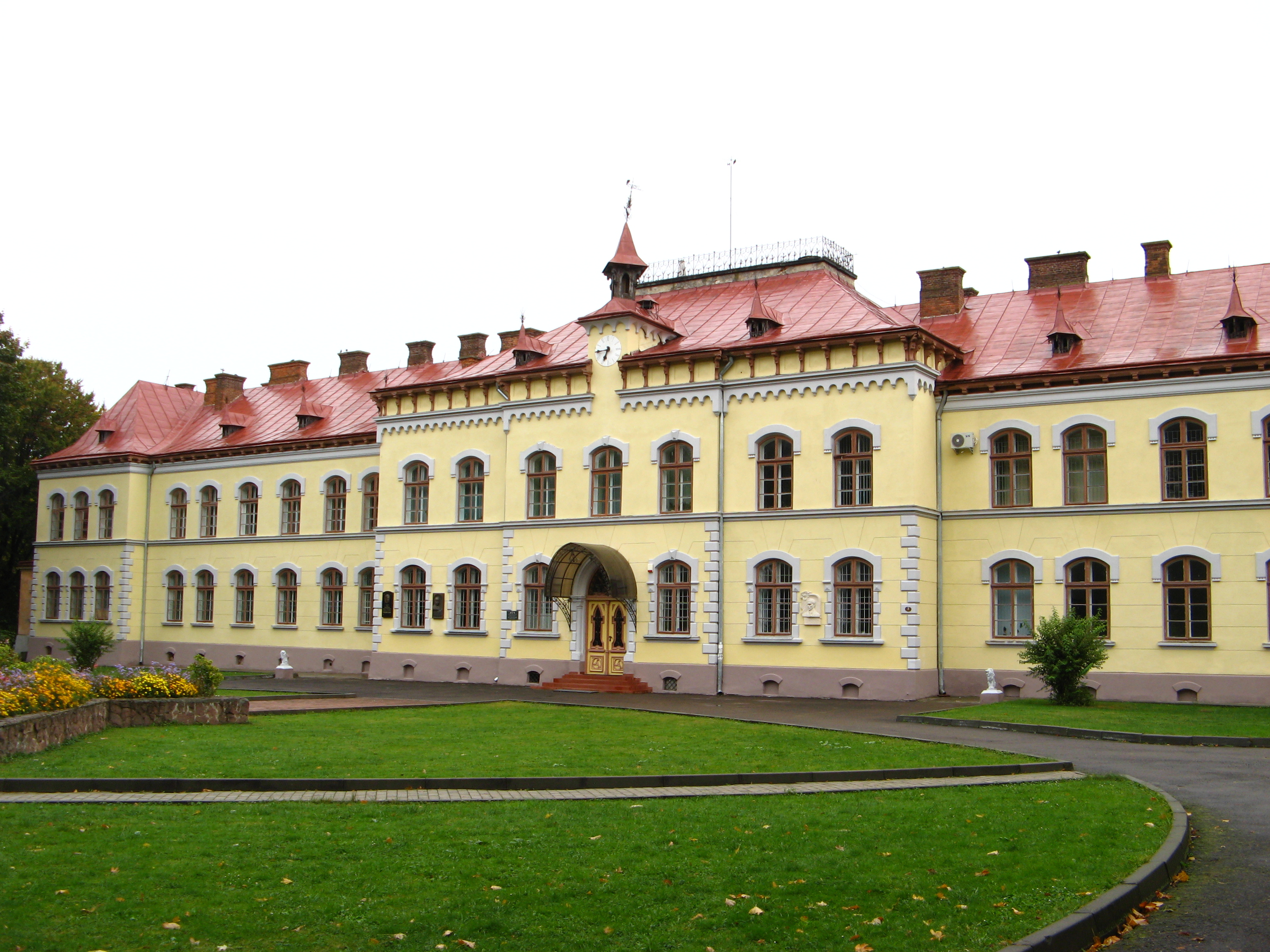 Agricultural Academy in Dublany (built 1887)